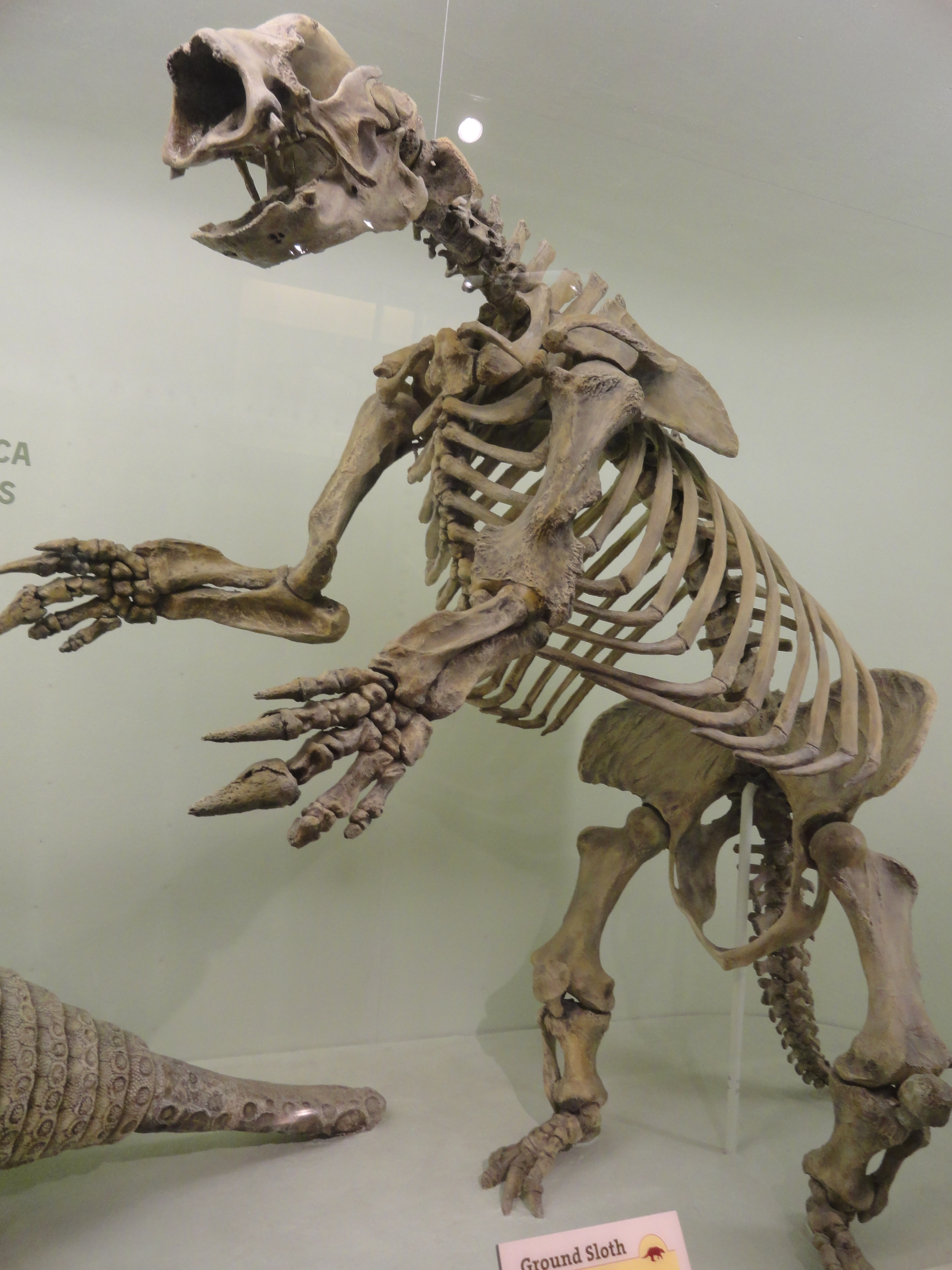 Megalonyx at Harvard Museum of Comparative Zoology